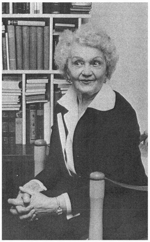 Photograph of the Finnish politician Aino Kuusinen (1886–1970).